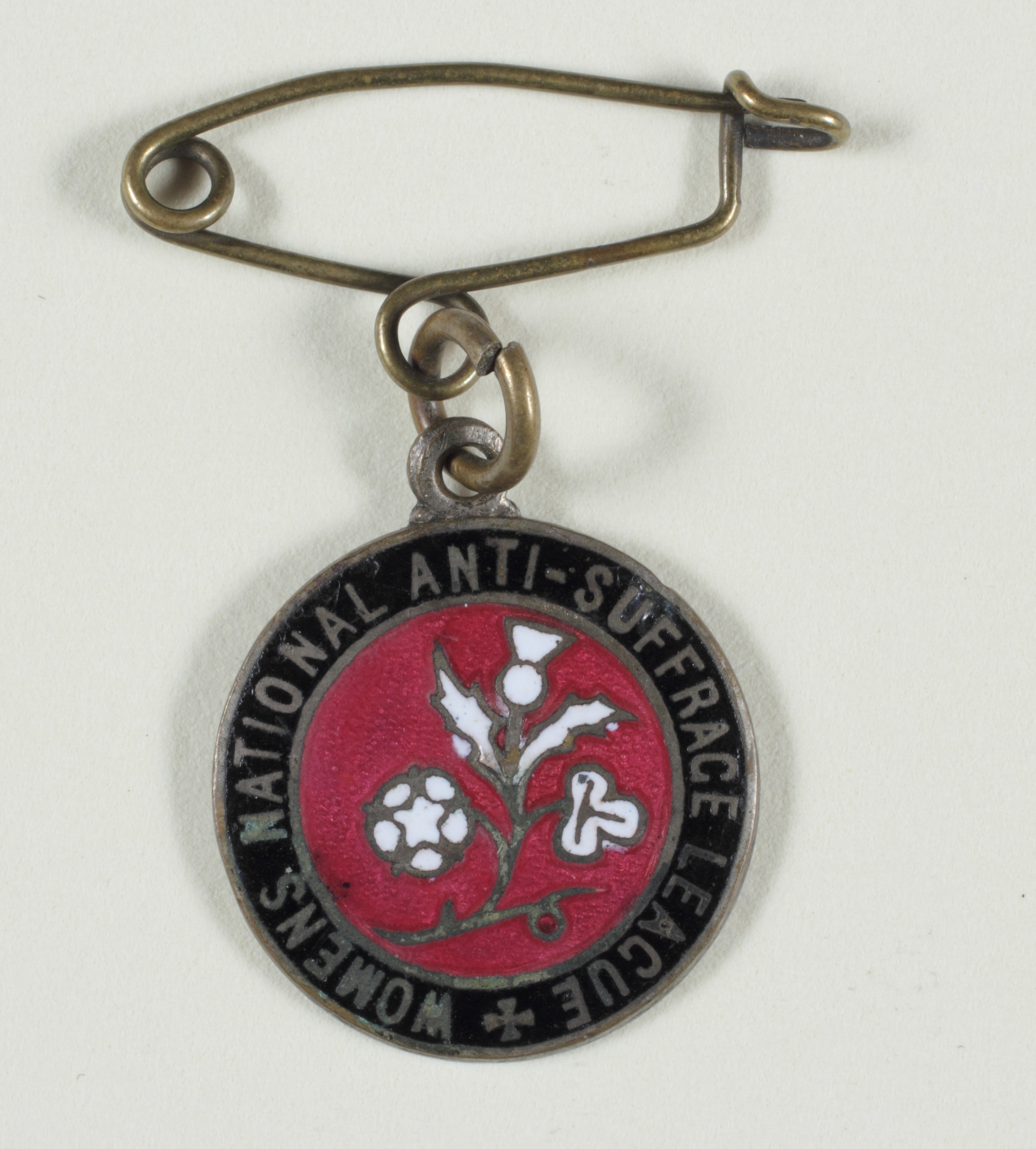 TWL.2004.610Badge, metal, enamel, round attached with a ring to a straight metal pin, produced by the Women's National Anti-Suffrage League black and gold image a clover, primrose and thistle, on a pink ground, black border with gold inscription: 'Women's National Anti-Suffrage League'.